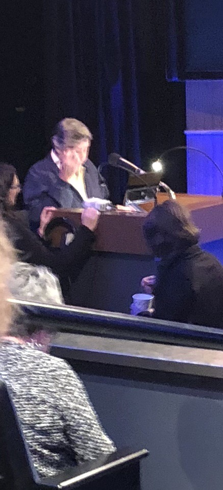 Depicted person: Johnny Gilbert – American singer